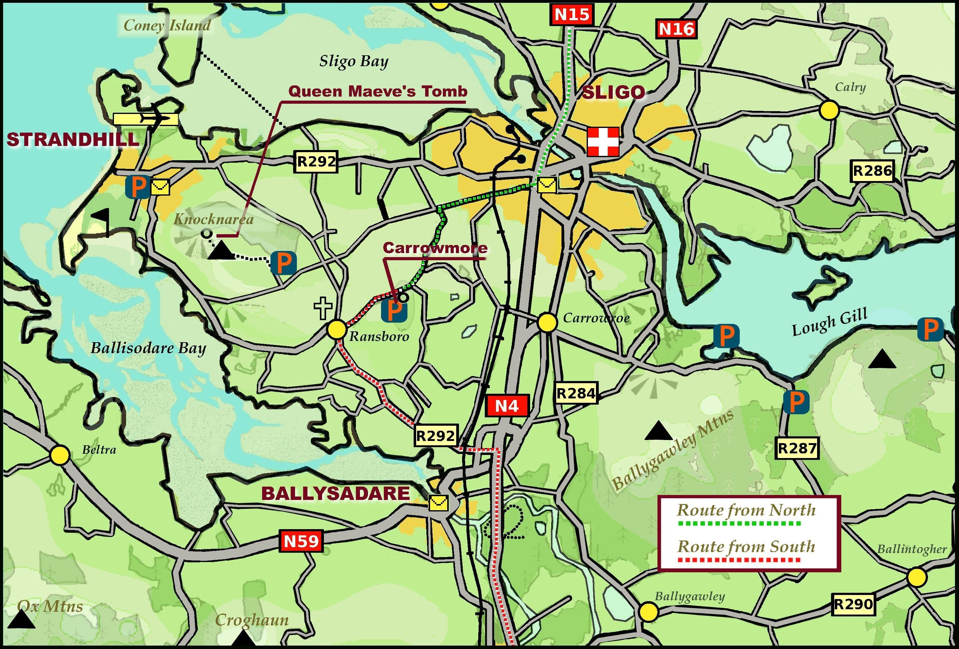 Map of Finding Carrowmore Megalithic Cemetery, Sligo, Ireland